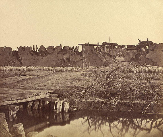 View of the entrance the English used into the North Fort of Taku on the Peiho River, near Tientsin (Tianjin), China.